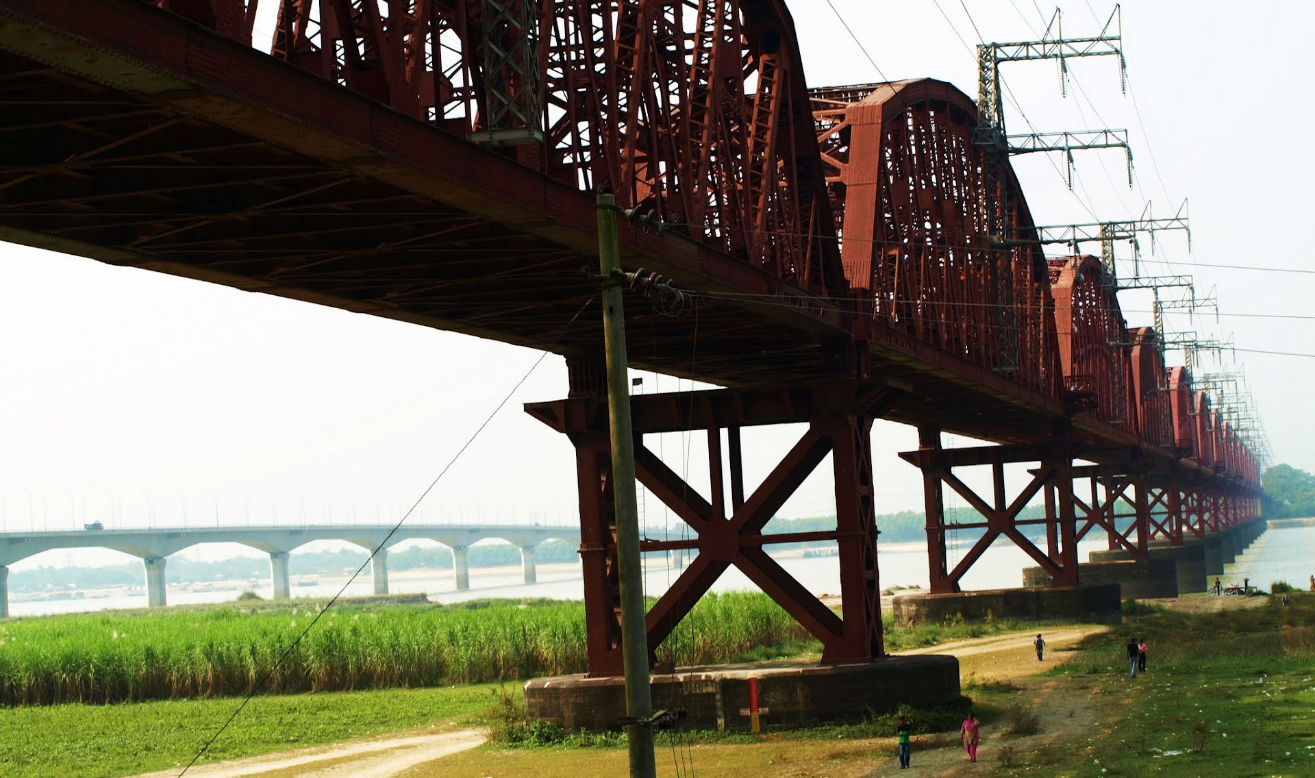 Hardinge Bridge, Padma River, Bangladesh